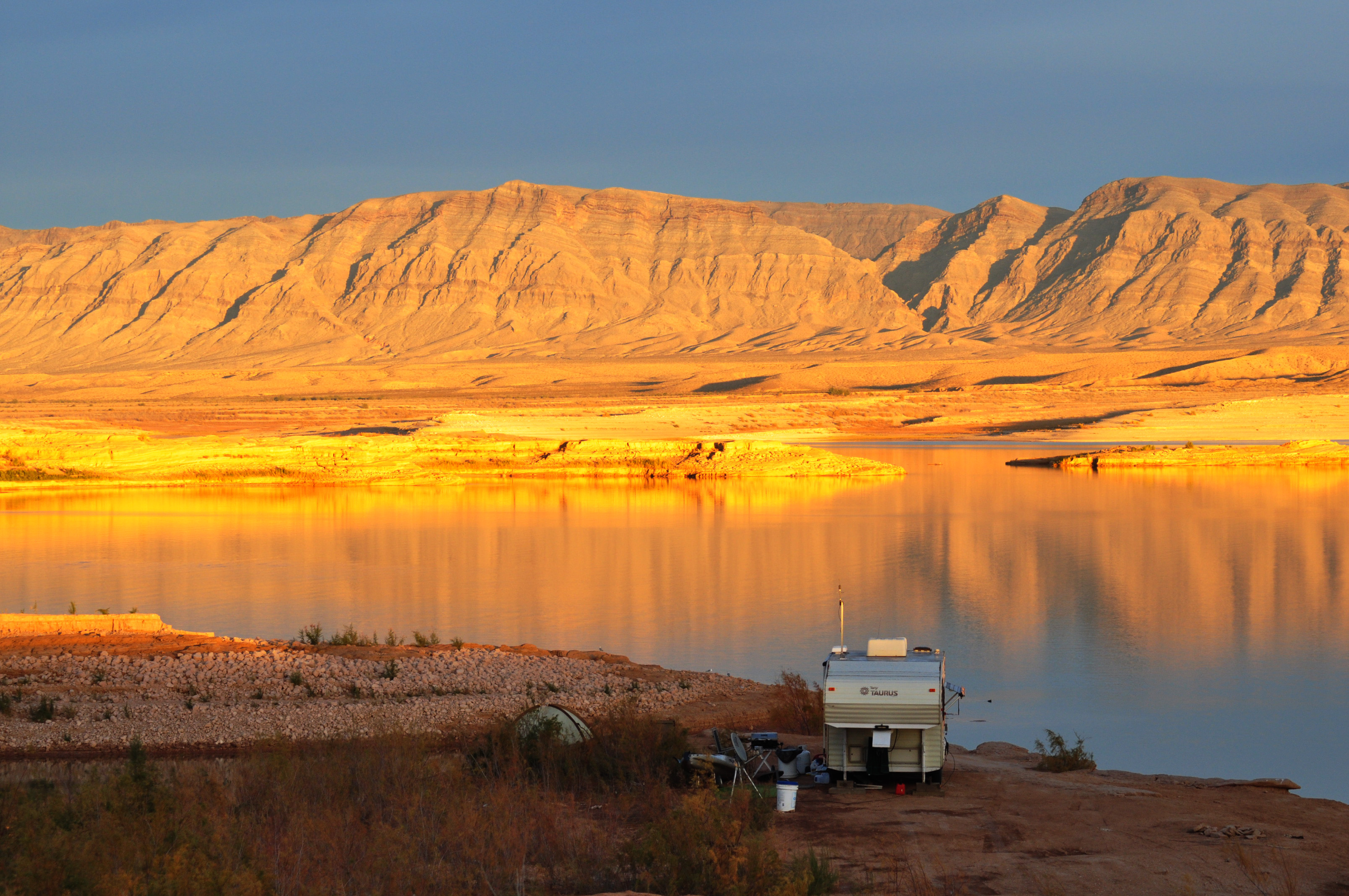 Image: Lime Ridge in Gold Butte as seen from the west side of the Overton Arm of Lake Mead. Location: North of Stewarts Point BLM District: Southern Nevada District Office Photographer: Ron Casey PIC: 1.7 MB